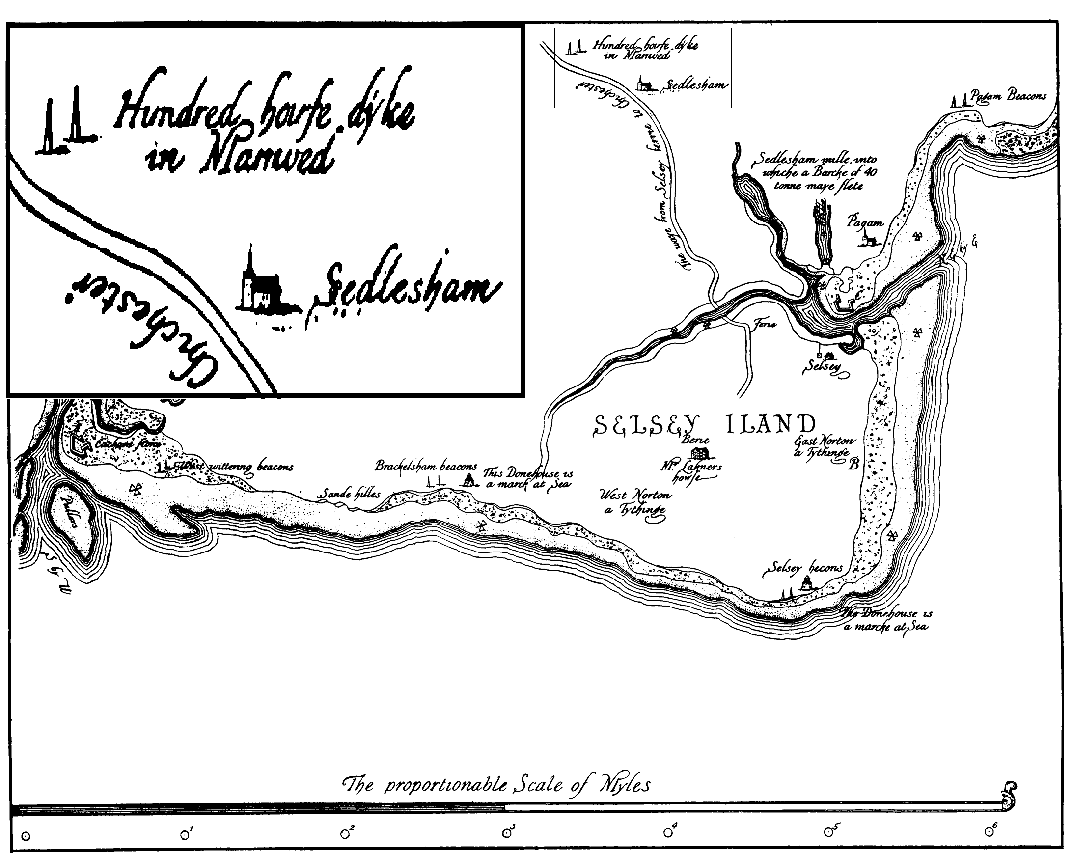 This is part of a survey of the Sussex coast made by Sir Thomas Palmer Knight and Walter Coverte and records the section of the coast around Selsey Bill. Sir Thomas Palmer Knight and Walter Coverte were Deputy Lieutenants of Sussex and its coast line. The survey was made during the reign of Queen Elizabeth I of England, in the year 1578, and was commissioned as part of a project to build up defences against the Spanish Armada.